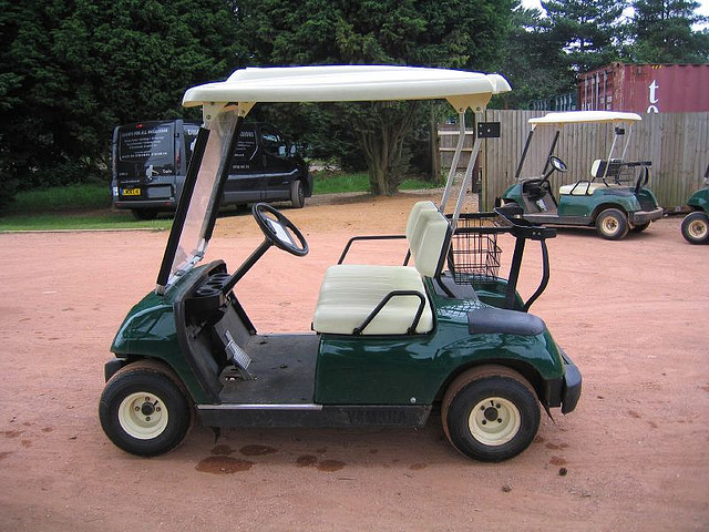 Golf buddy at Trent Park